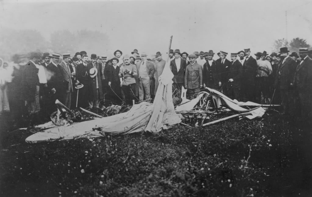 Aurel Vlaicu crash photo